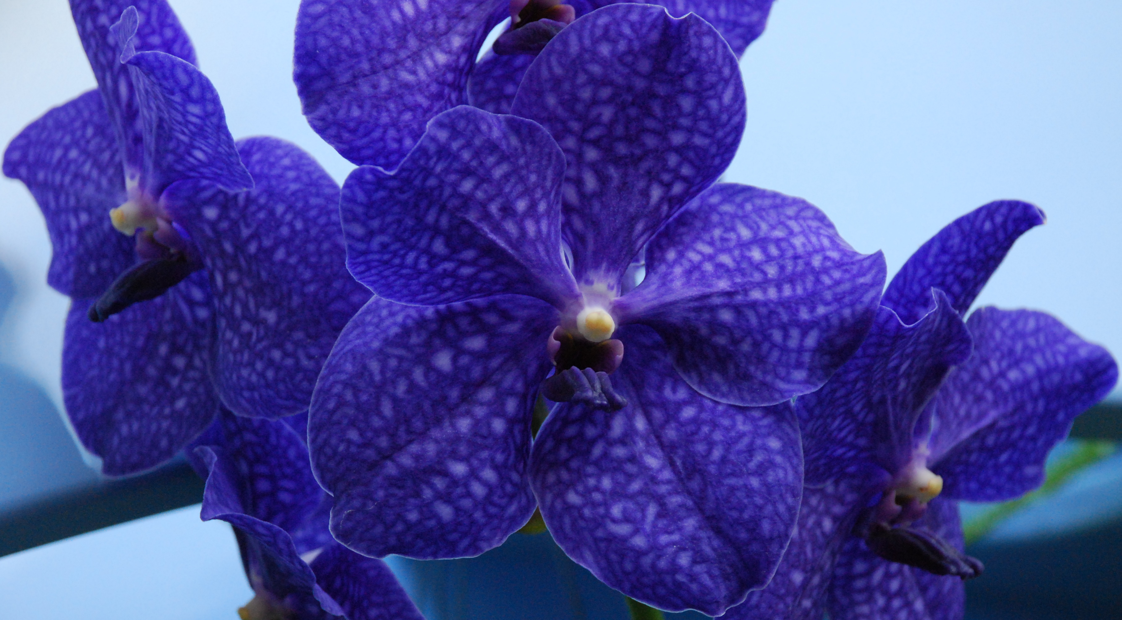 vanda pachara delight found in United States Botanical Garden, V. Pachara Delight, GM/JOGA Award winning color flowers with good presentation, on strong spikes held clear of the foliage;deep sapphire blue blooms with dark er tessellations on all segments. Extra ordinary easy flowering and cut flower industry delight